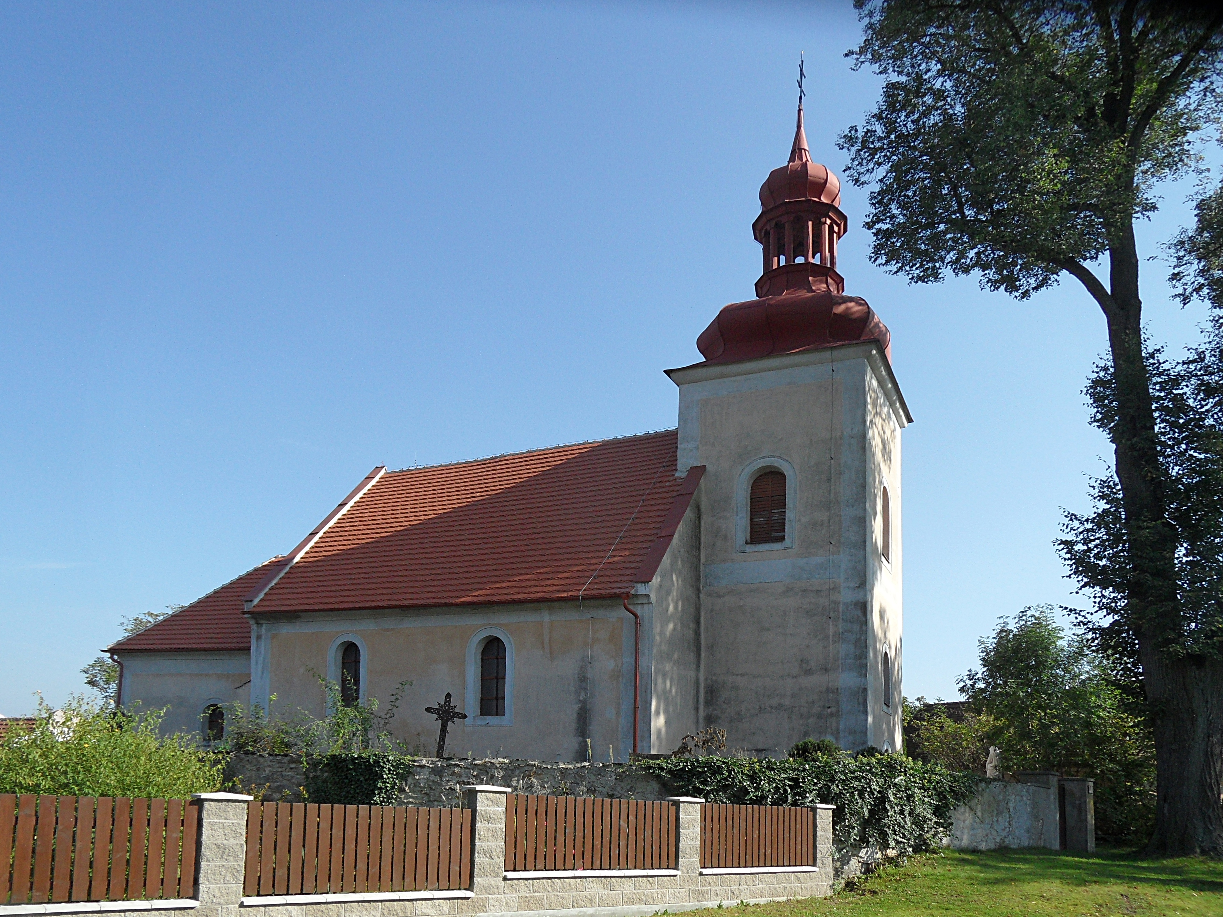 Přibyslavice (Vlkaneč) A. Church of St. Wenceslaus, Kutná Hora District, the Czech Republic.